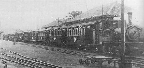 Commemoration train of 20th Anniversary of Okinawa Prefectural Railways